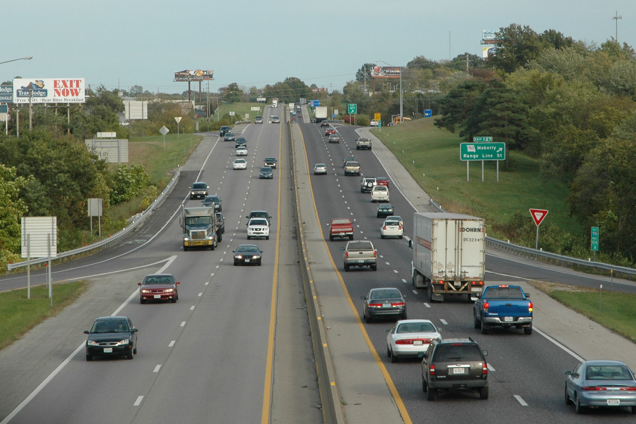 Vehicles ply I-70, the oldest interstate in Missouri. According to David Ahlvers, state construction and materials engineer with the Missouri Department of Transportation, the highway was originally designed to last 20 years. Ahlvers added that over its about 50 years history, there have been many overlays on the highway, which are not cost effective. (KOMU Photo/Manu Bhandari)